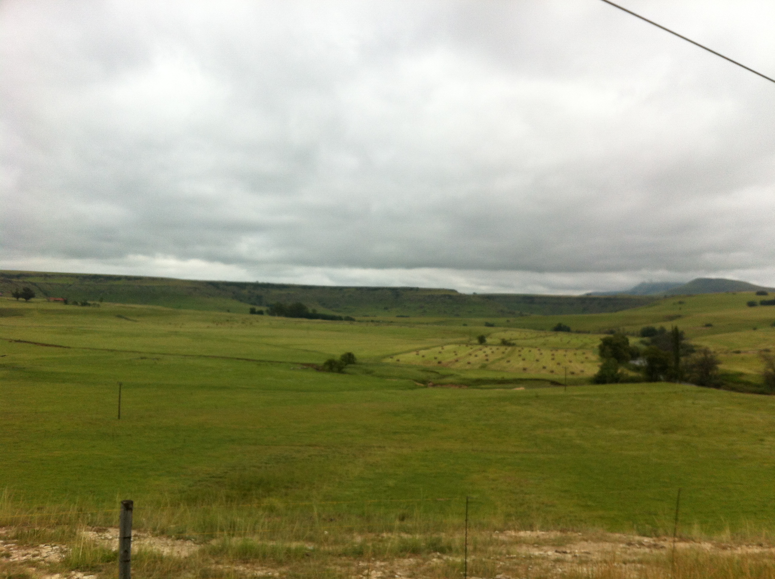 Mount Fletcher, South Africa